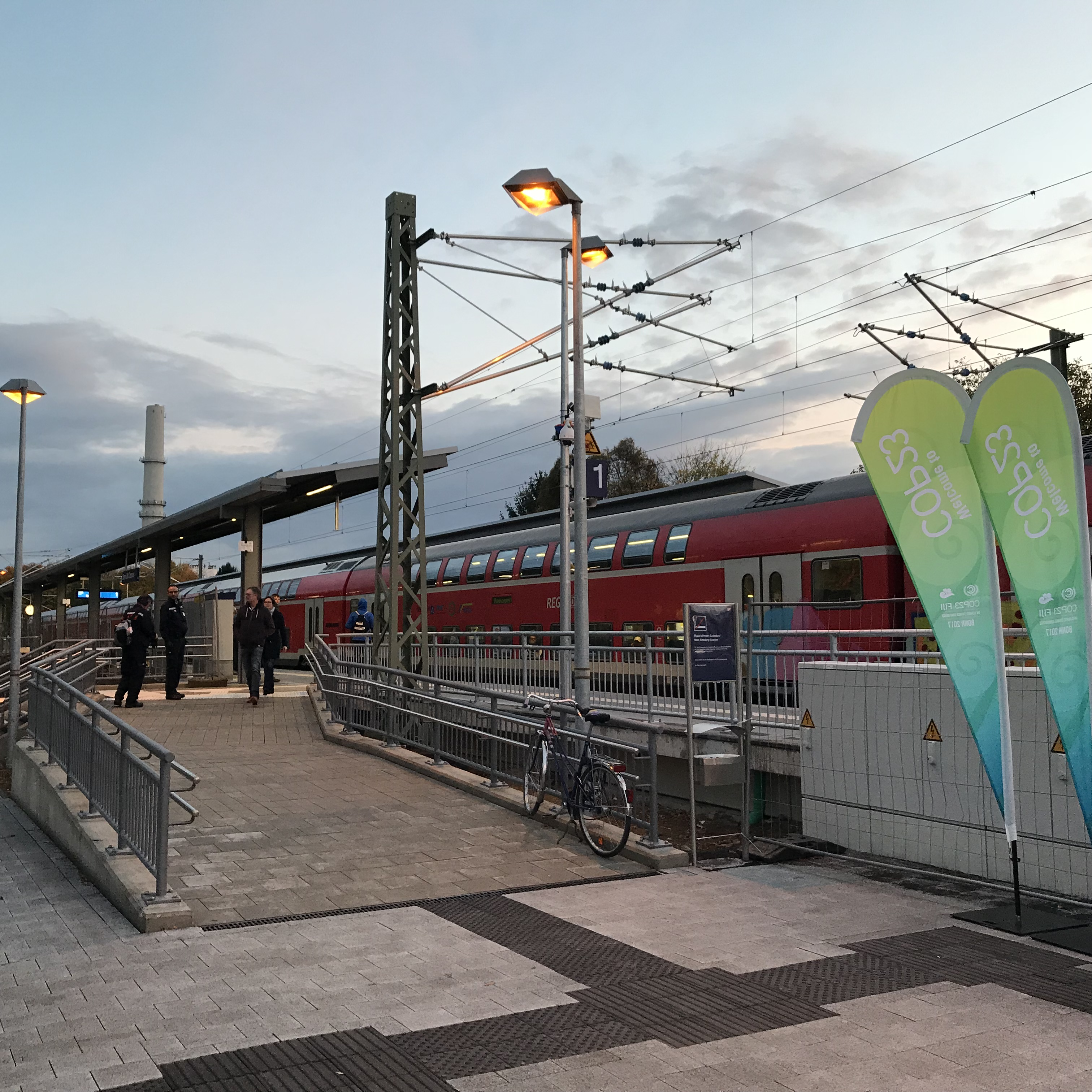 Just opened railway station near United Nations Campus in the evening of November 2017, one day before United Nations Climate Change Conference in Bonn begins. A grey tactile paving in the middle guides blind people up to the platform.